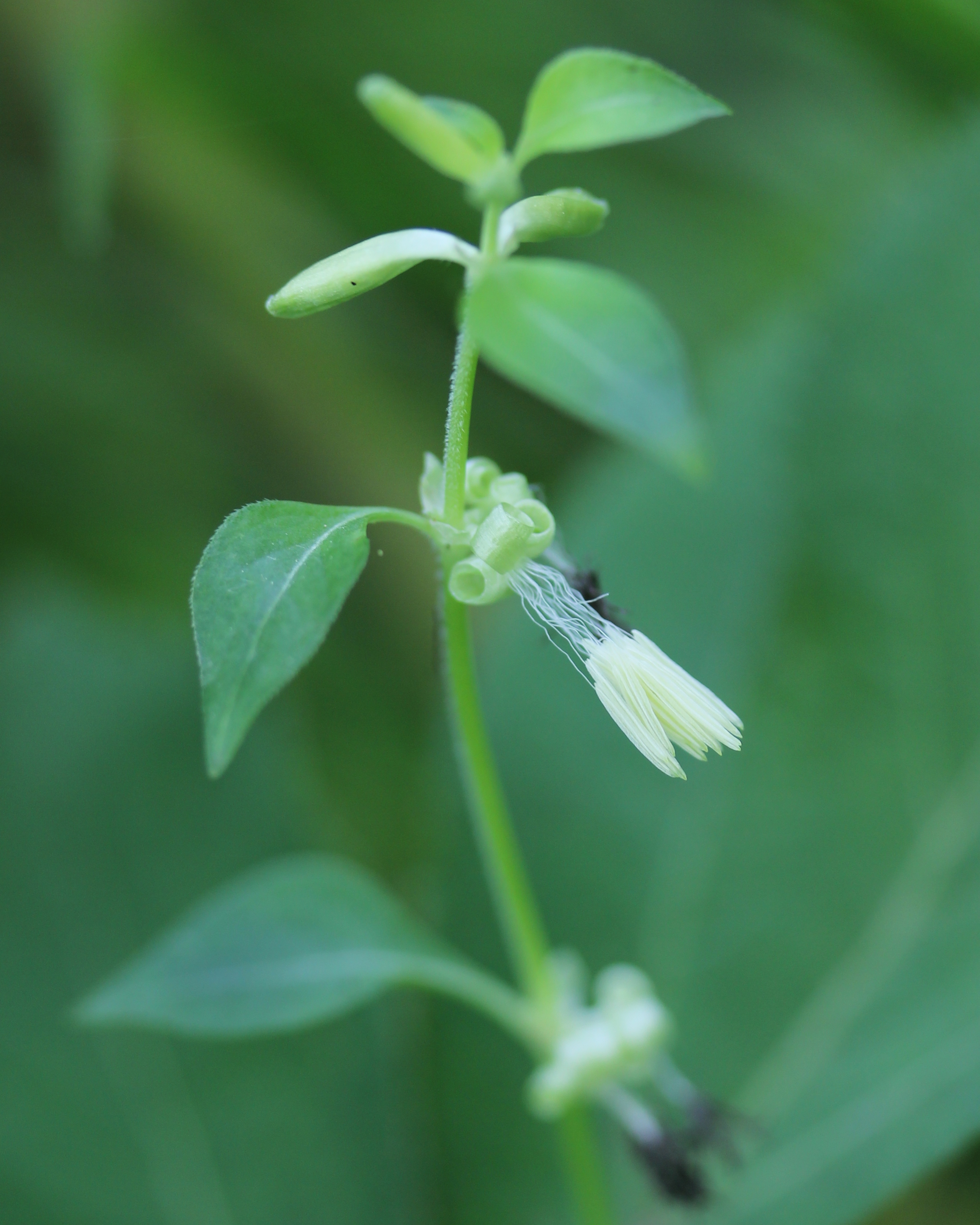 Theligonum japonicum in north ridge of Mount Ibuki, Maibara, Japan.